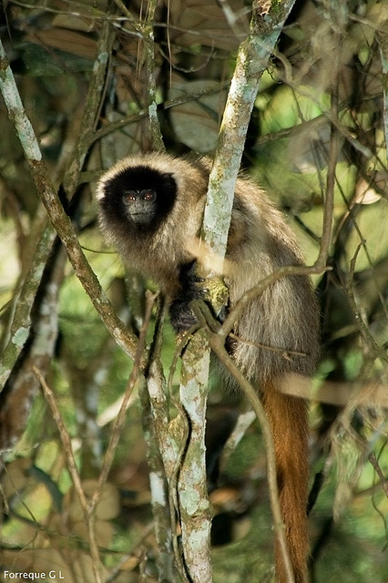 Atlantic titi (Callicebus personatus) in Domingos Martins, Espírito Santo State, Brazil.